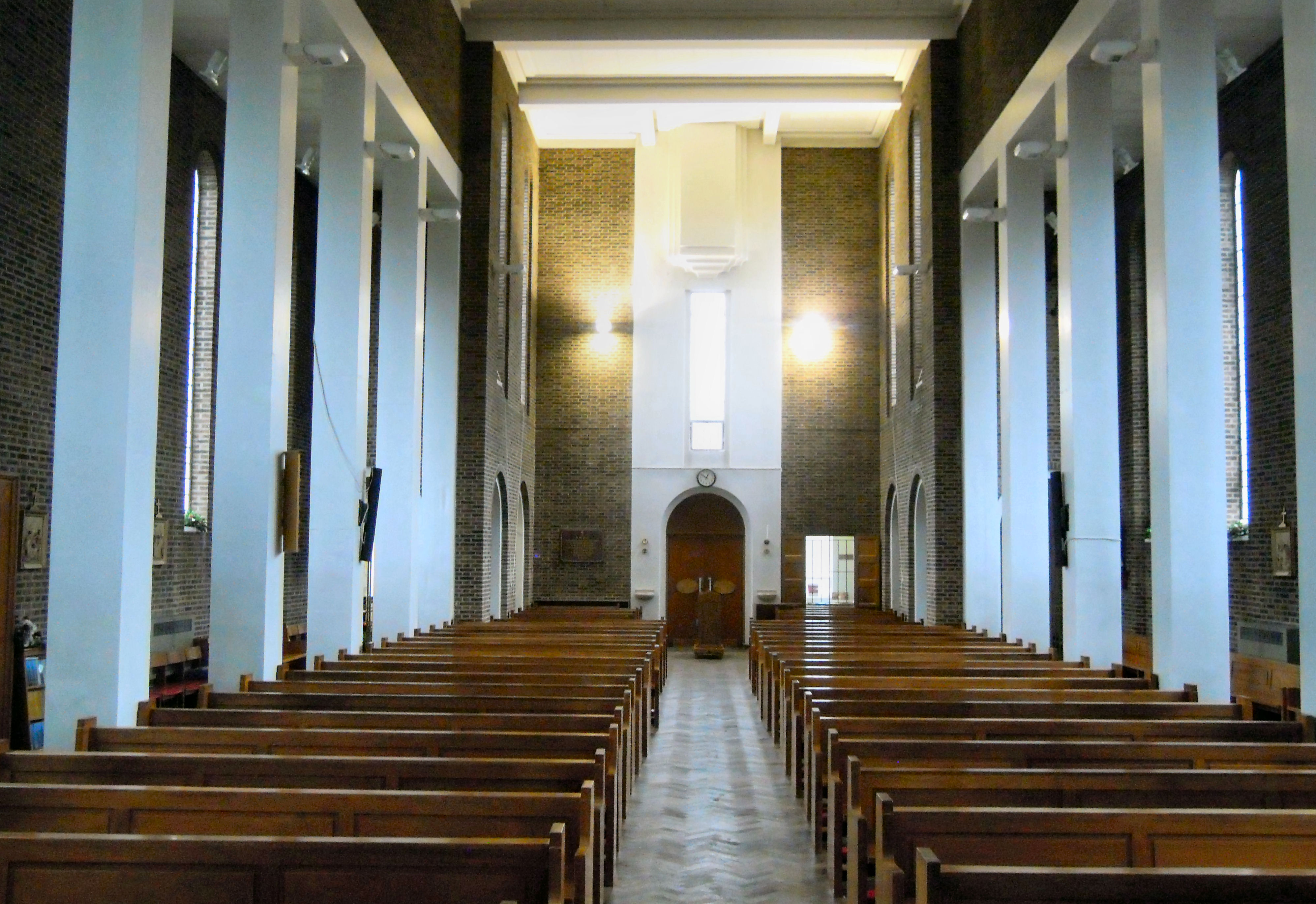 Looking West in the Church of St Hugh of Lincoln in Letchworth in Hertfordshire